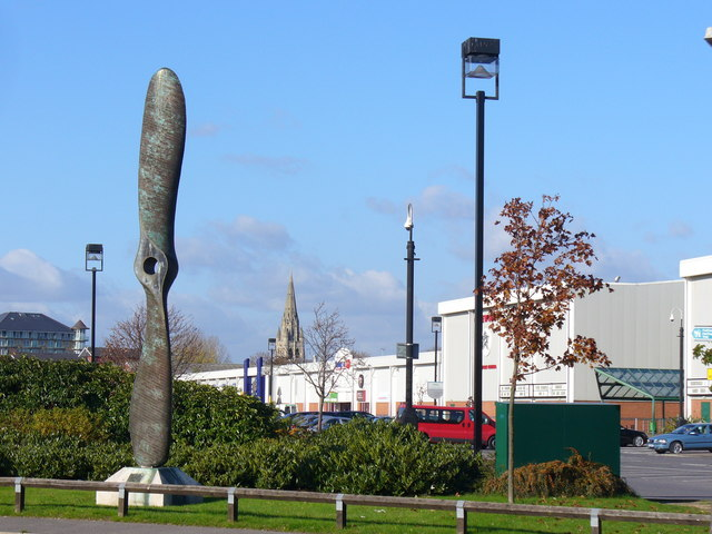 Propeller Sculpture located on the site of the General Aircraft Ltd (GAL) factory at Hanworth Air Park, where WWII fighters were made and repaired. In 1946, the air park was closed, and today the site is occupied by leisure facilities and warehousing. The steeple on the skyline is the former St Catherine's church.